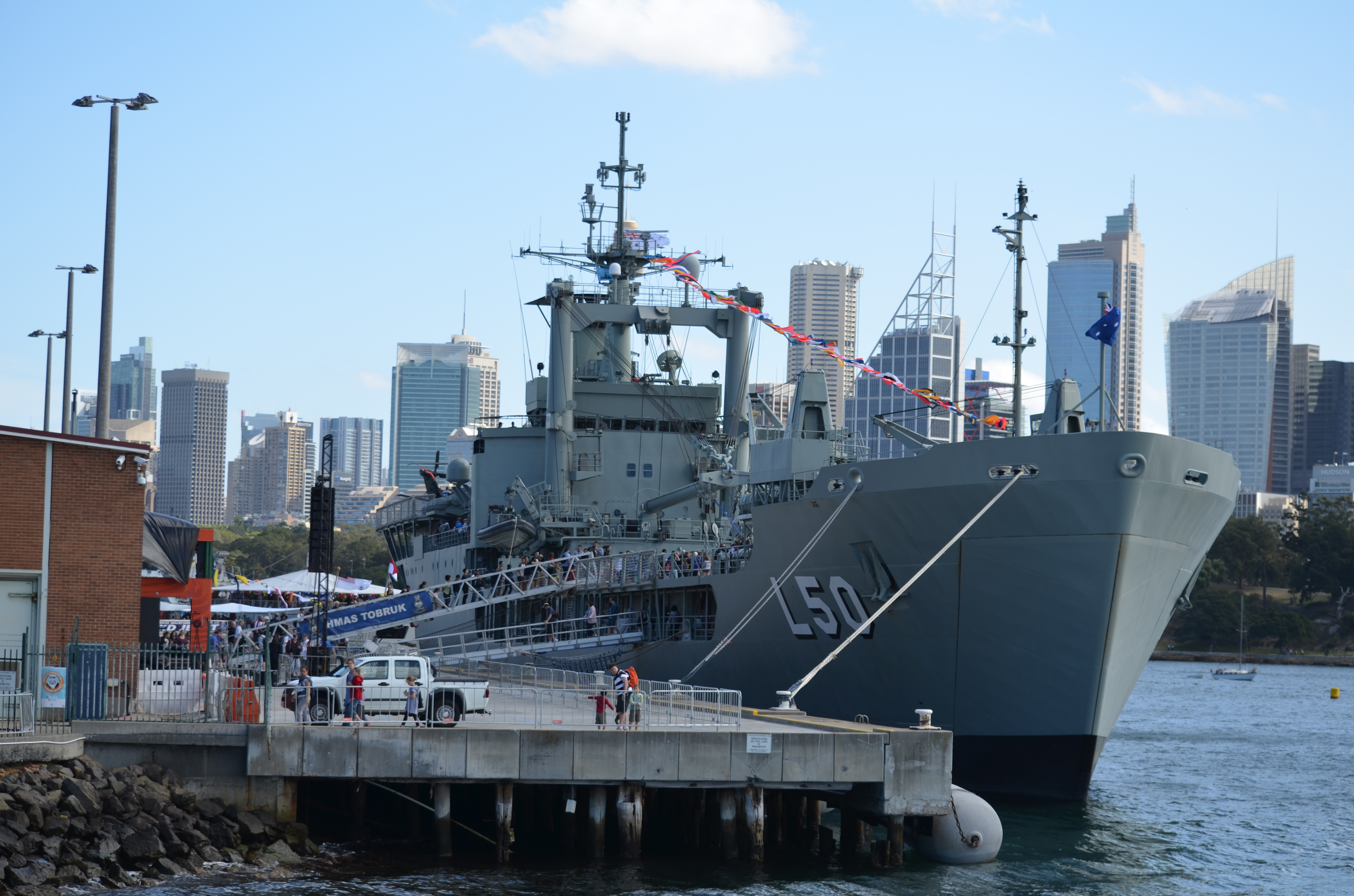 Photographs taken during day 5 of the Royal Australian Navy International Fleet Review 2013. The Australian amphibious transport Tobruk berthed at Fleet Base East for the International Fleet Review Open Days